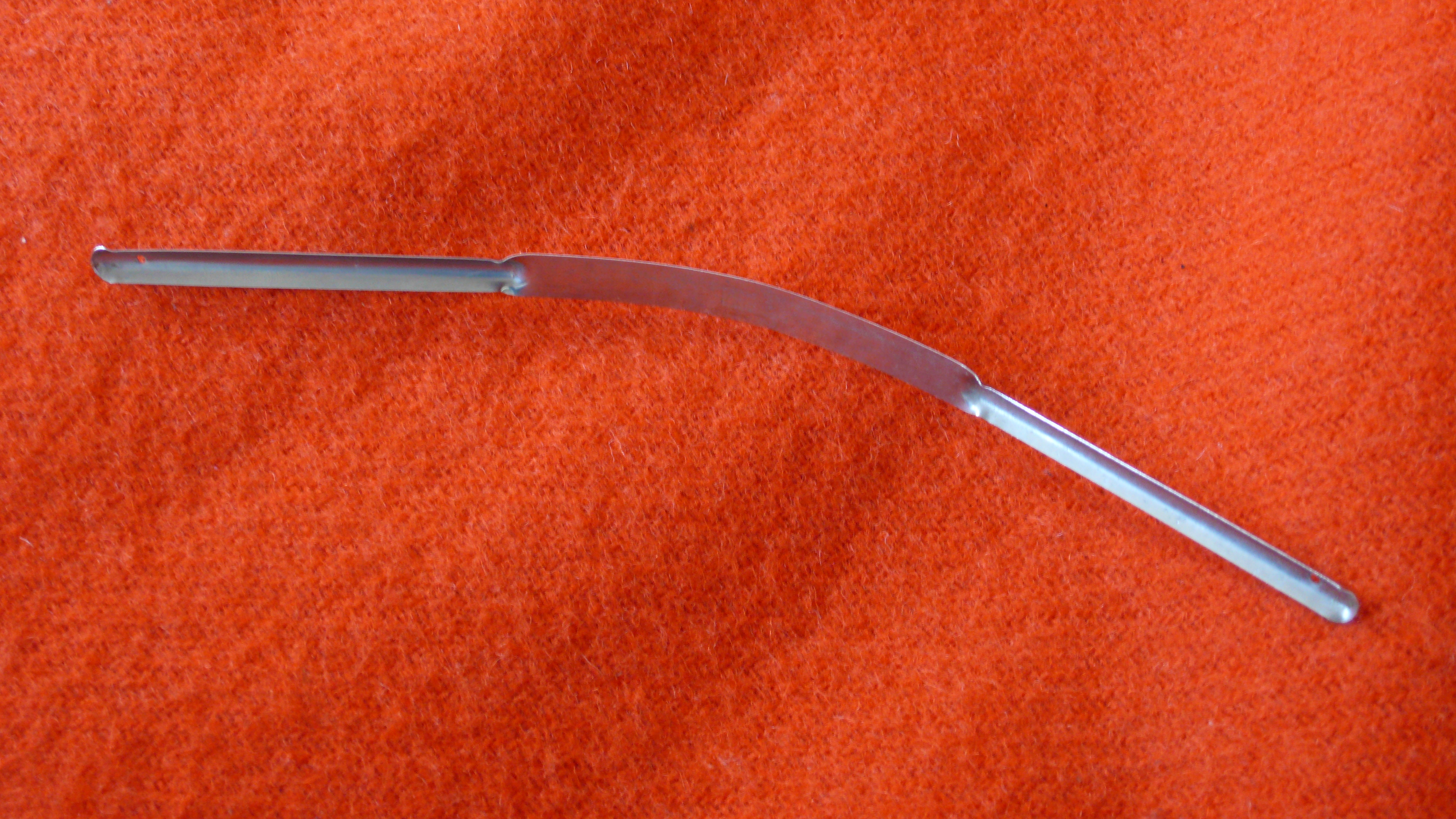 Tongue Scraper in stainless steel.